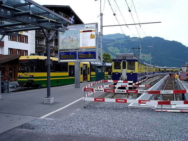 Grindelwald